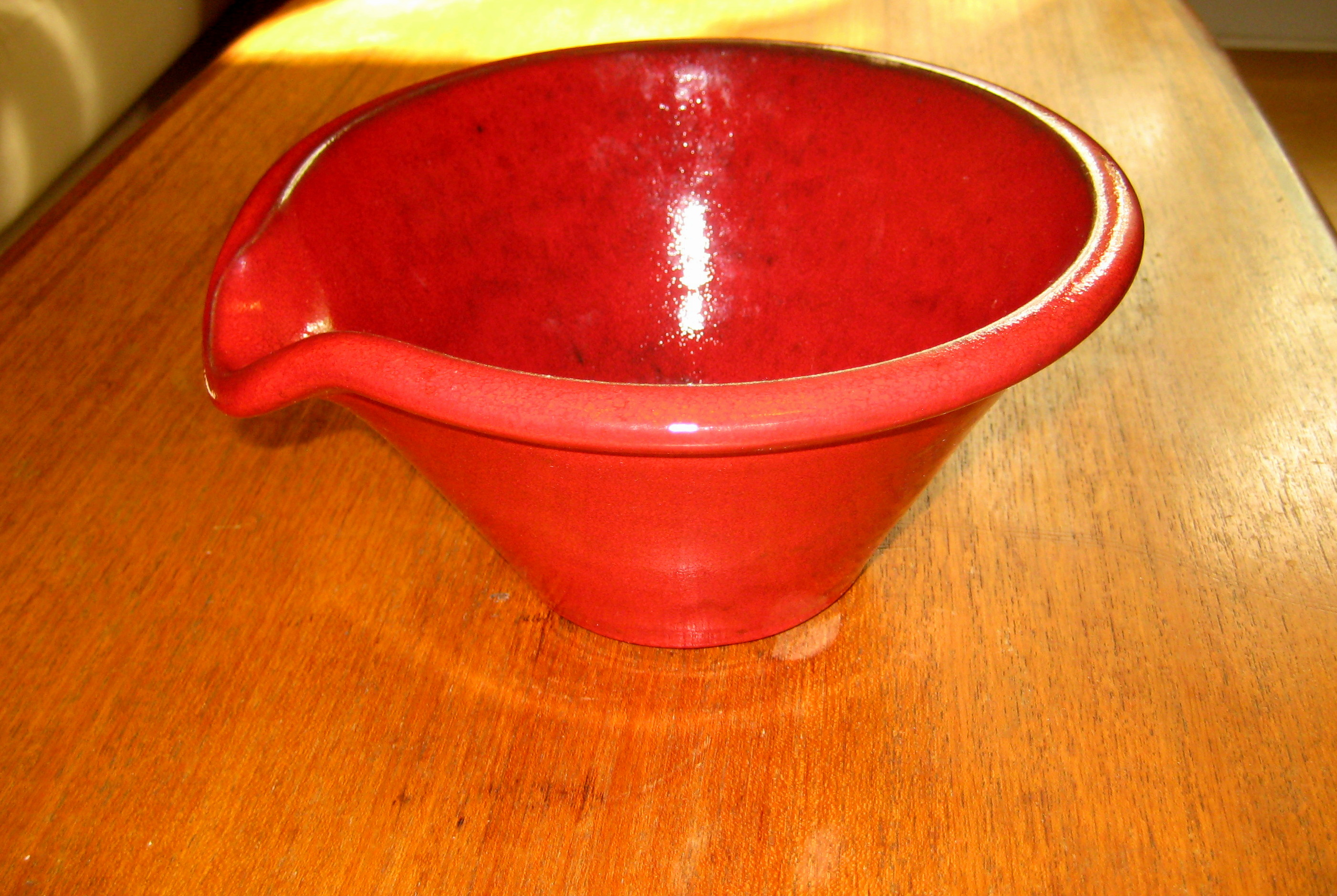 A red ceramic bowl with a spout, crafted by Douglas Leinhard.